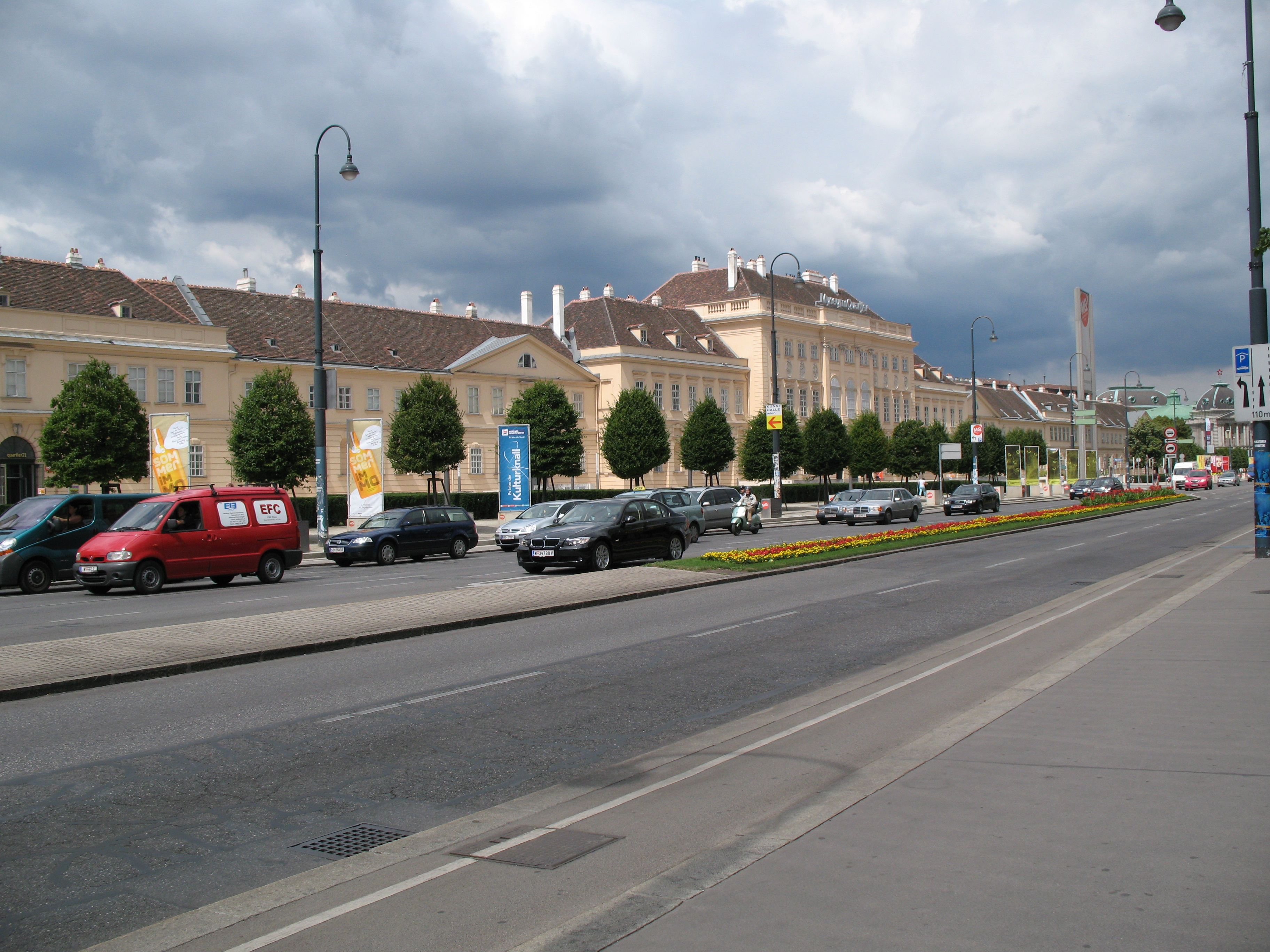 Austria, Vienna, Museumsquartier